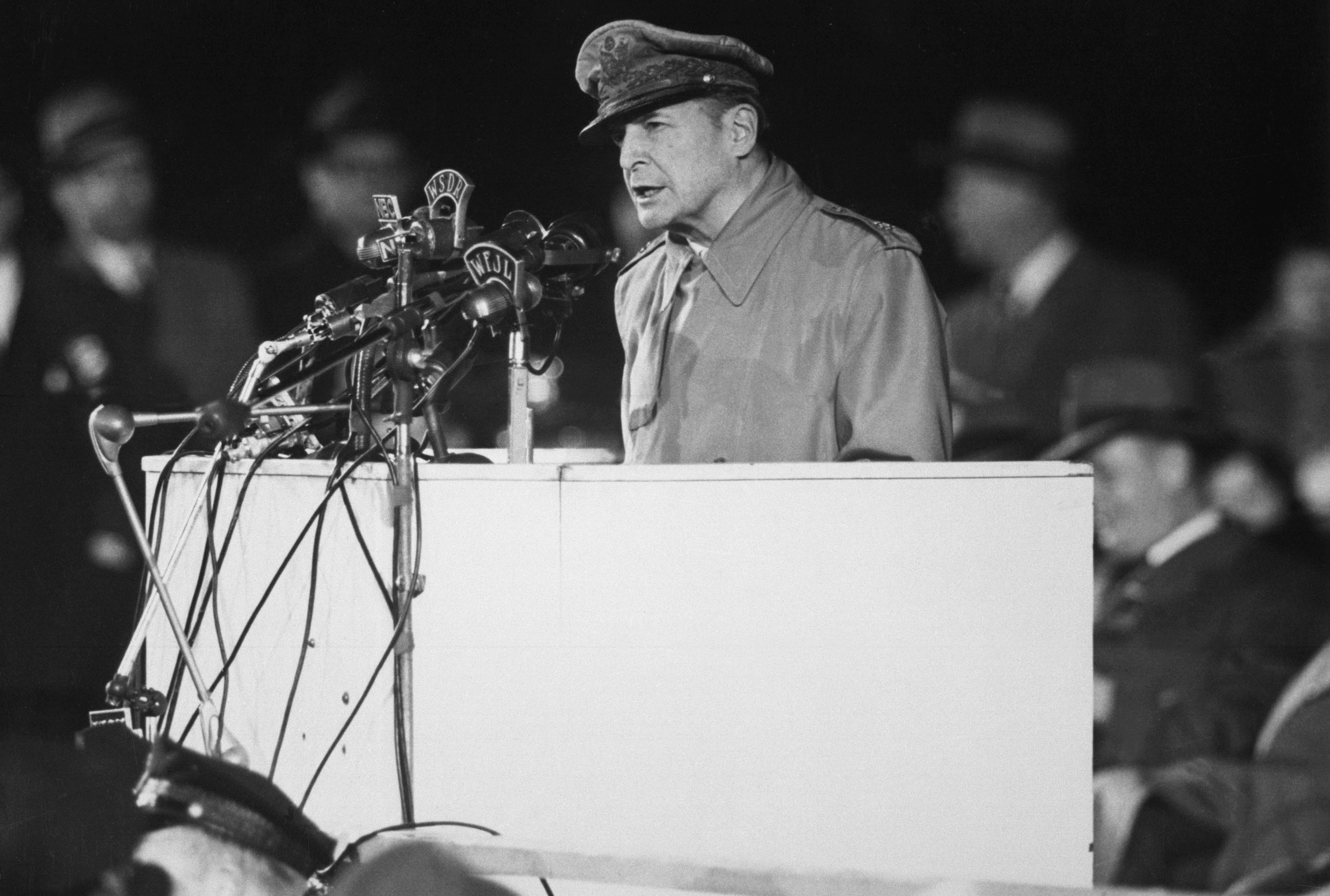 Gen. Douglas MacArthur addressing an audience of 50,000 at Soldier's Field, Chicago, on his first visit to the United States in 14 years. ID #HD-SN-99-03036 Public Domain. Suggested credit: National Archives via pingnews. Additional information from source: ARC Identifier: 541955 Local Identifier: 306-PS-51(6988) Title: General Douglas MacArthur addressing an audience of 50,000 at Soldier's Field. The General, on his first visit to the United States in 14 years, April 1951. Chicago, Illinois. Acme., 1948 - 1983 Large image (70336 Bytes) Creator: U.S. Information Agency. Press and Publications Service. Visual Services Branch. Photo Library. (ca. 1982 - ) ( Most Recent) Type of Archival Materials: Photographs and other Graphic Materials Level of Description: Item from Record Group 306: Records of the U.S. Information Agency, 1900 - 1992 Location: Still Picture Records LICON, Special Media Archives Services Division (NWCS-S), National Archives at College Park, 8601 Adelphi Road, College Park, MD 20740-6001 PHONE: 301-837-3530, FAX: 301-837-3621, Coverage Dates: 1948 - 1983 Part of: Series: Master File Photographs of U.S. and Foreign Personalities, World Events, and American Economic, Social, and Cultural Life, 1948 - 1983 Access Restrictions: Unrestricted Use Restrictions: Unrestricted General Note: Use War and Conflict Number 1377 when ordering a reproduction or requesting information about this image. Variant Control Number(s): NAIL Control Number: NWDNS-306-PS-51(6988)